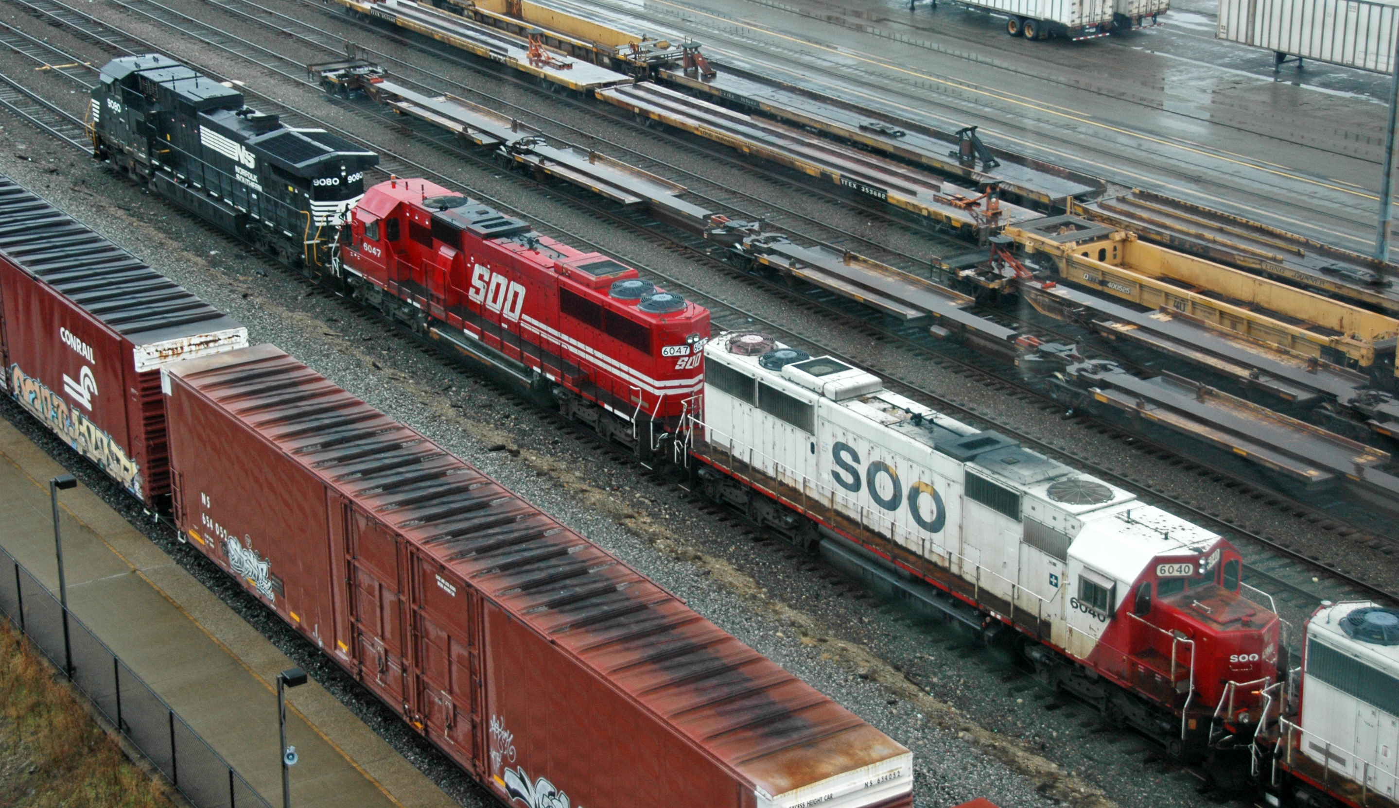 This line-up of diesel locomotives was observed in Cincinnati, Ohio's Queensgate Yard in January 2010. The black-colored engine at upper left is Norfolk Southern Railway # 9080, a General Electric CW44-9 unit that was built in March 1997. The red-colored engine is Soo Line Railroad # 6047, a General Motors Electro-Motive Division SD60 that was built in October 1989. The white-colored engine is Soo Line Railroad # 6040 - another SD60 that was built in March 1989.